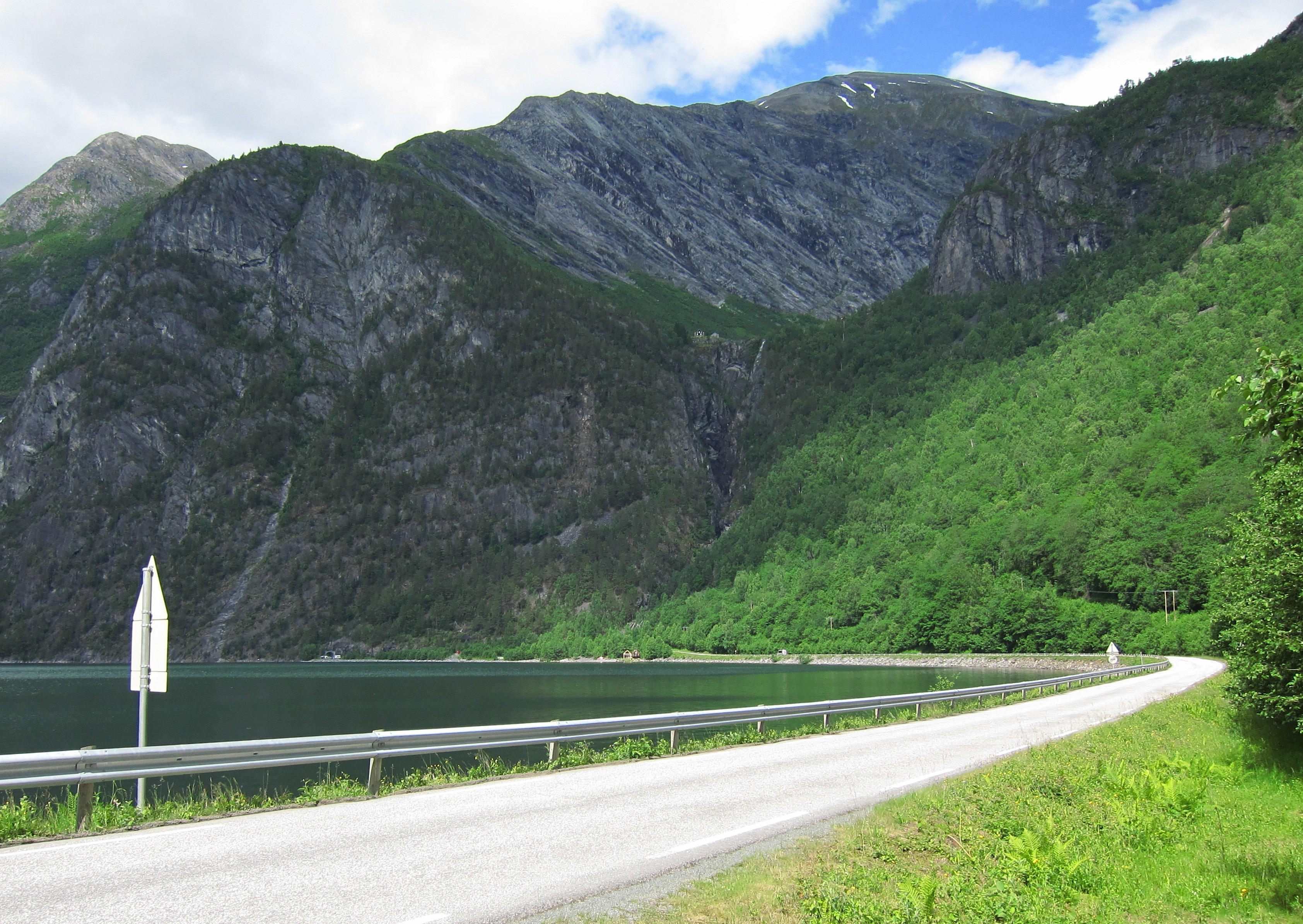 Fylkesveg 92 i Møre og Romsdal (County road 92), Tafjordvegen, Muldal waterfall in the background